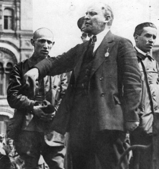 Lenin making a speech from the back of a vehicle before troops in the Red Square, 1919. (cropped)